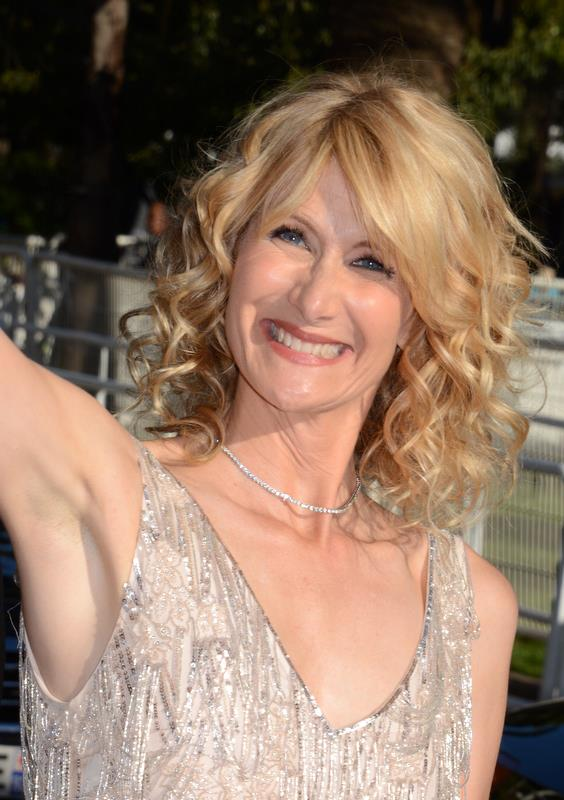 Laura Dern at the Cannes film festival